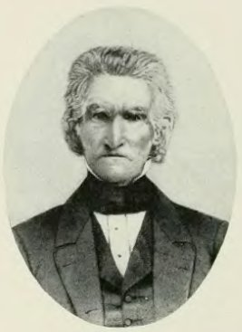 Illustration in History of Iowa From the Earliest Times to the Beginning of the Twentieth Century